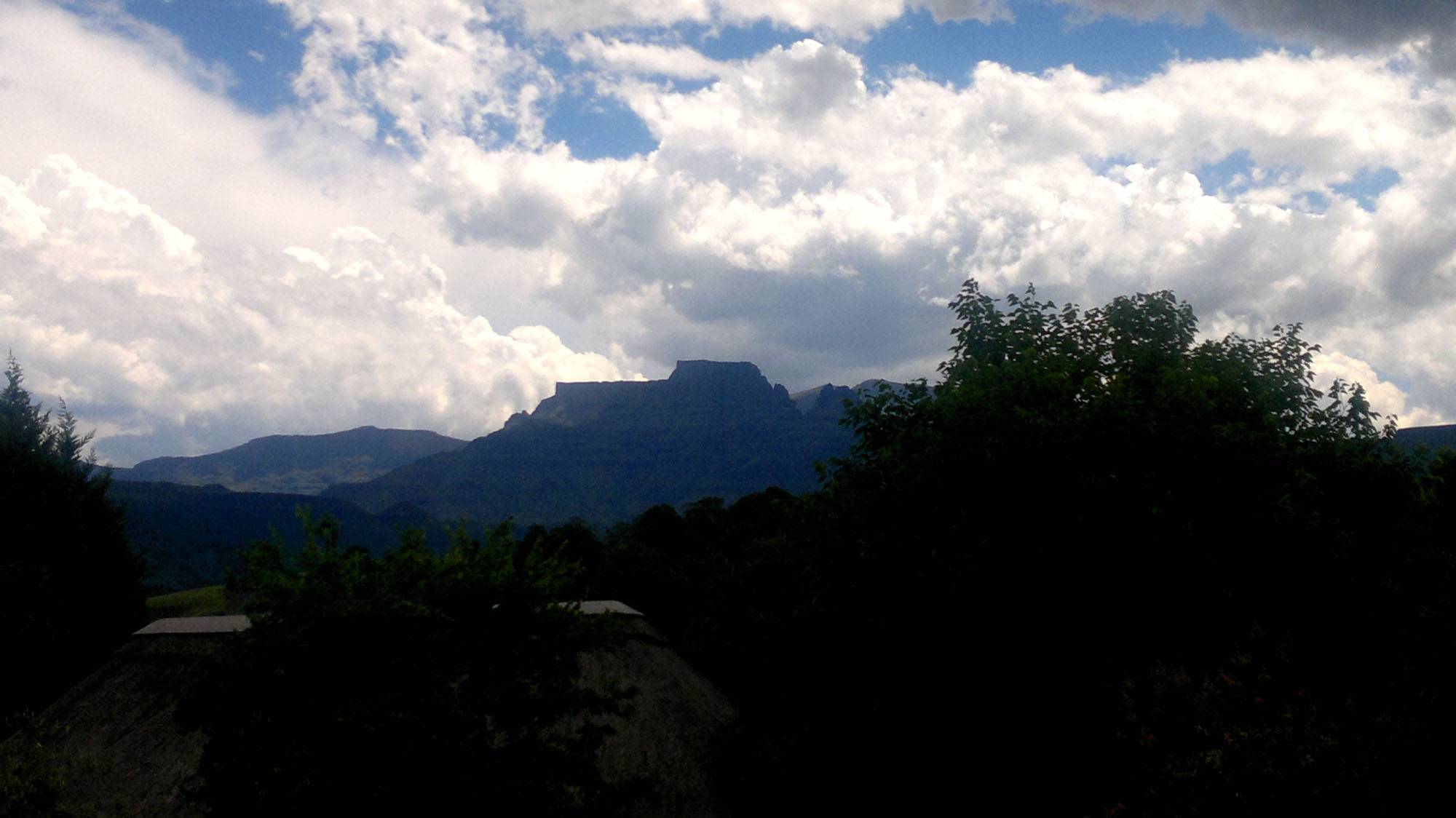 Sky and partial mountains of Drakensberg, South Africa